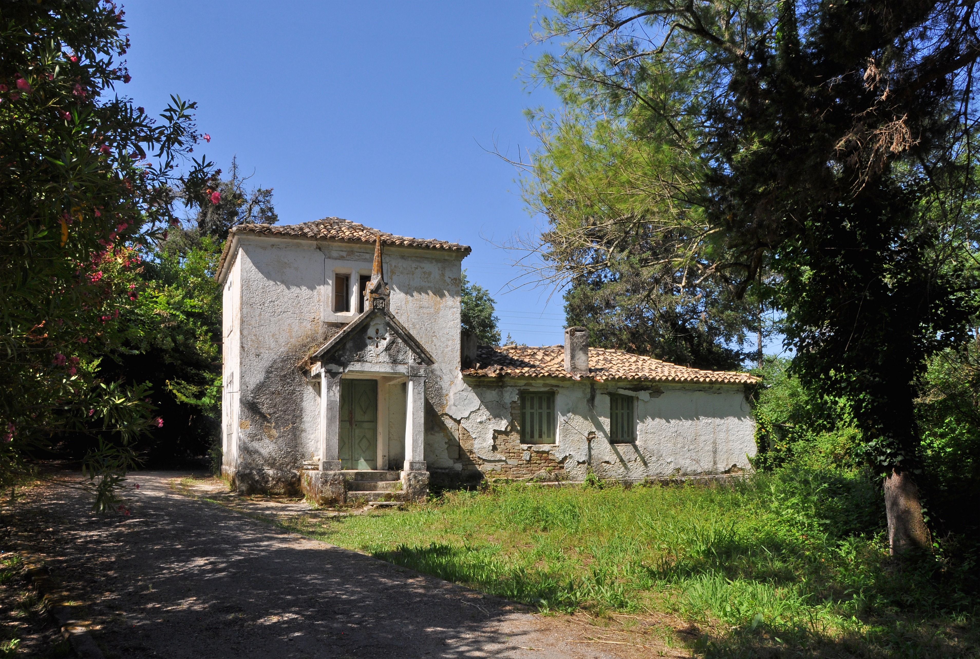 Corfu (Greece): former royal estate 'Mon Repos' - building in the park